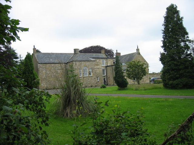 Causey Park House Keys to the Past Web Site: This house was first built in the late 16th century. It is a large rectangular building, with stair tower behind it. At the west end is a cross wing. Large stones at the base of the building were probably of 14th or 15th century date. Other parts of the building appear to belong to the 16th century. Grid line 95 slices through the house.